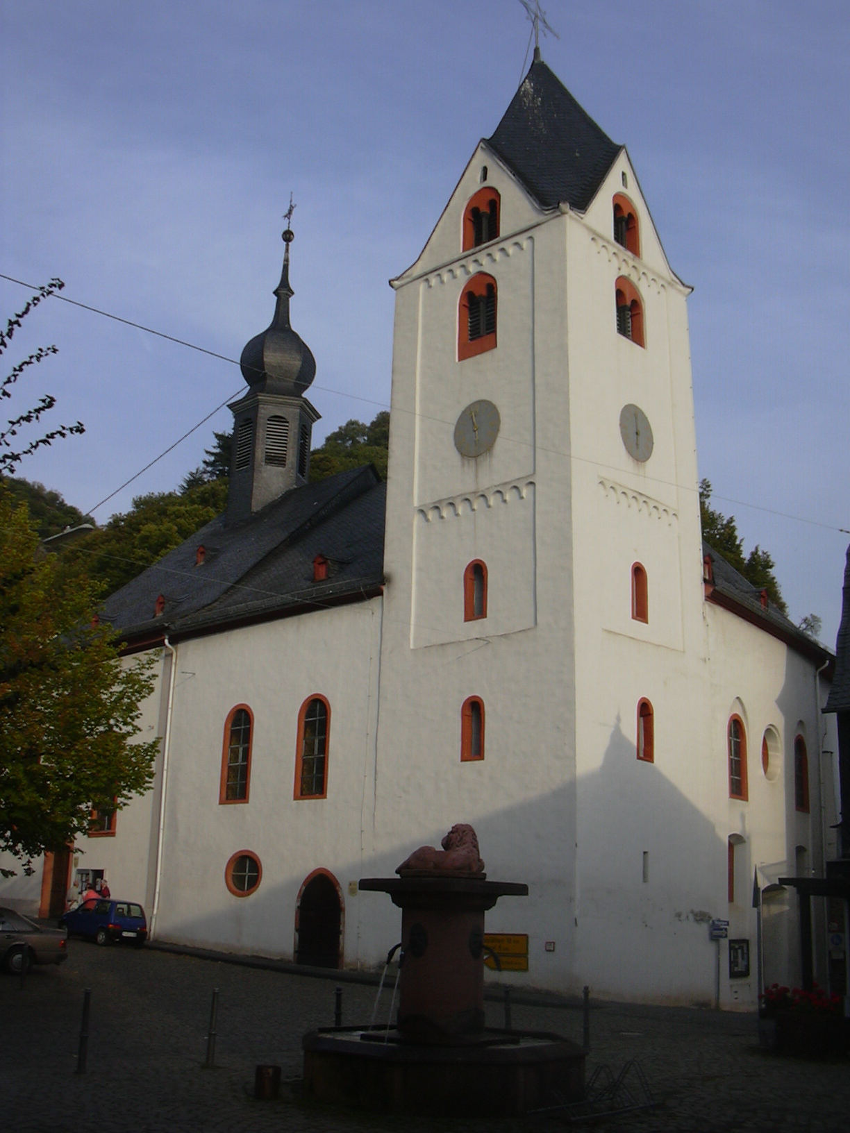 St. Trinitatis, Protestant Church in Kaub (Rhine Valley/Germany)